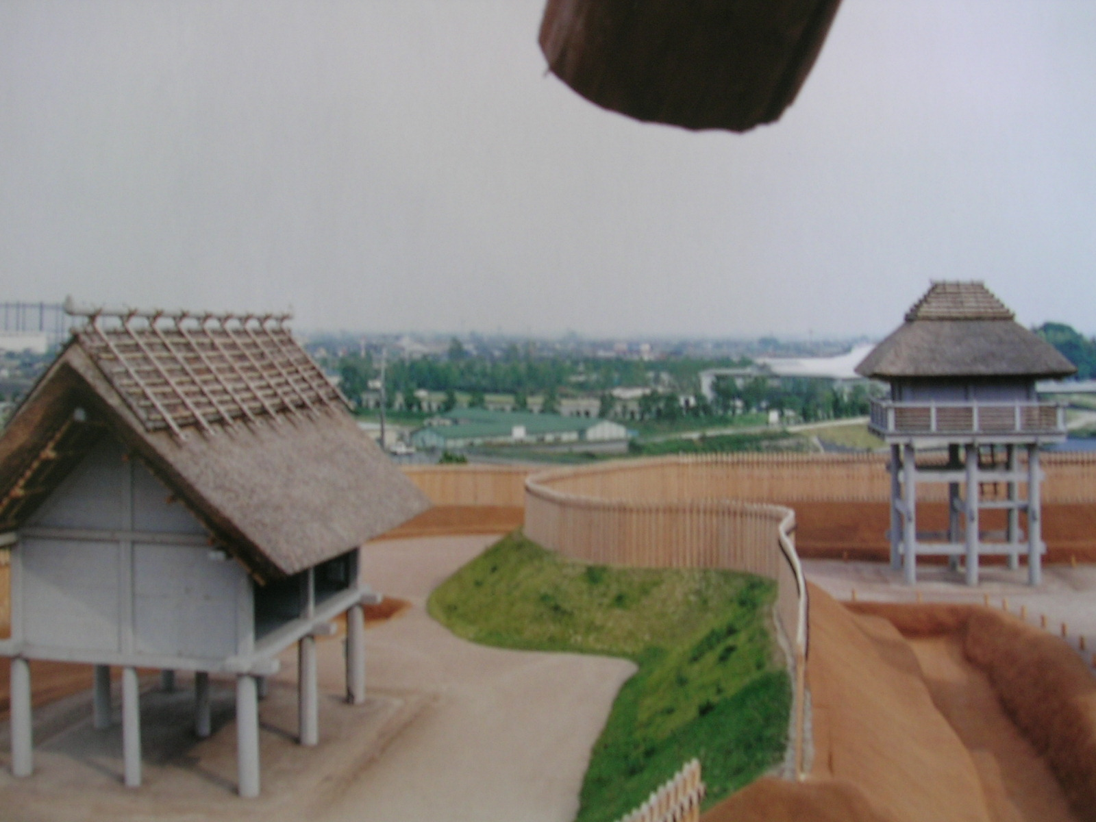 M.T. Bale